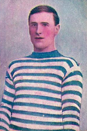 Cigarette card of Ike Woods from the 1905 Wills Past and Present Champions series.